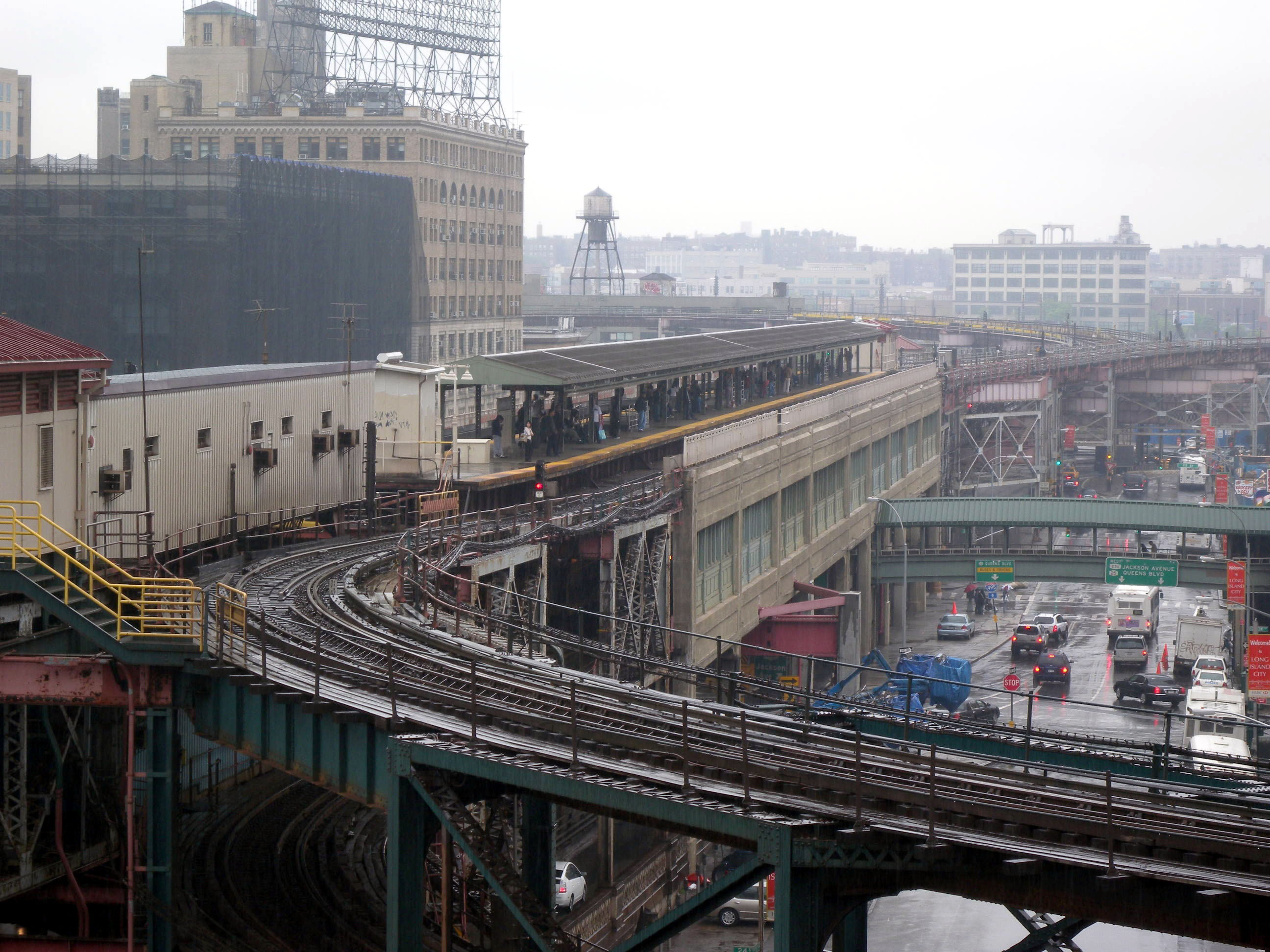 Looking east, full zoom, at Queensboro Plaza station, from up-ramp of upper level of Queensboro Bridge during a rainy Five Borough Bike Ride.